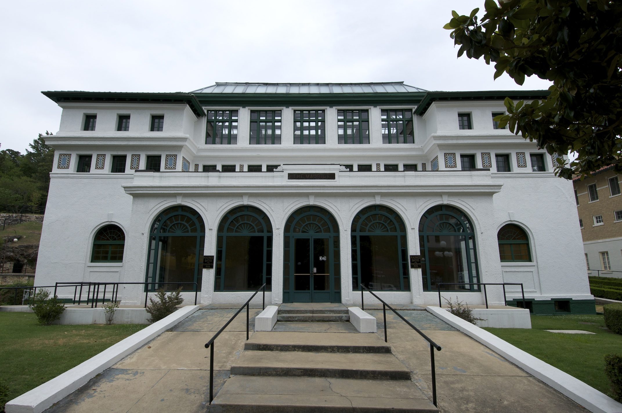 The Maurice — in Bathhouse Row, Hot Springs National Park, Garland County, Arkansas. Designed by George Gleim, Jr.